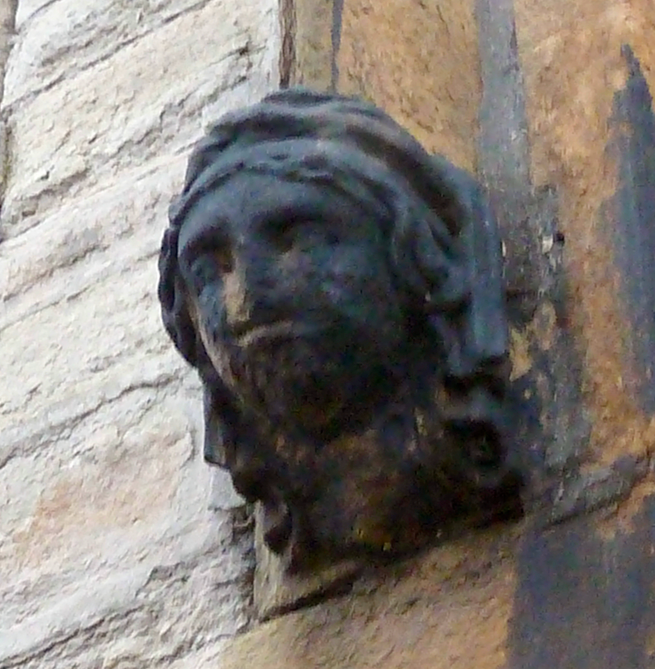 Former St Andrews School designed by Mallinson & Healey in 1858 and destroyed by fire in 2009. It has two fire-damaged carvings of heads by Robert Mawer, either side of a window. Photo taken in failing light